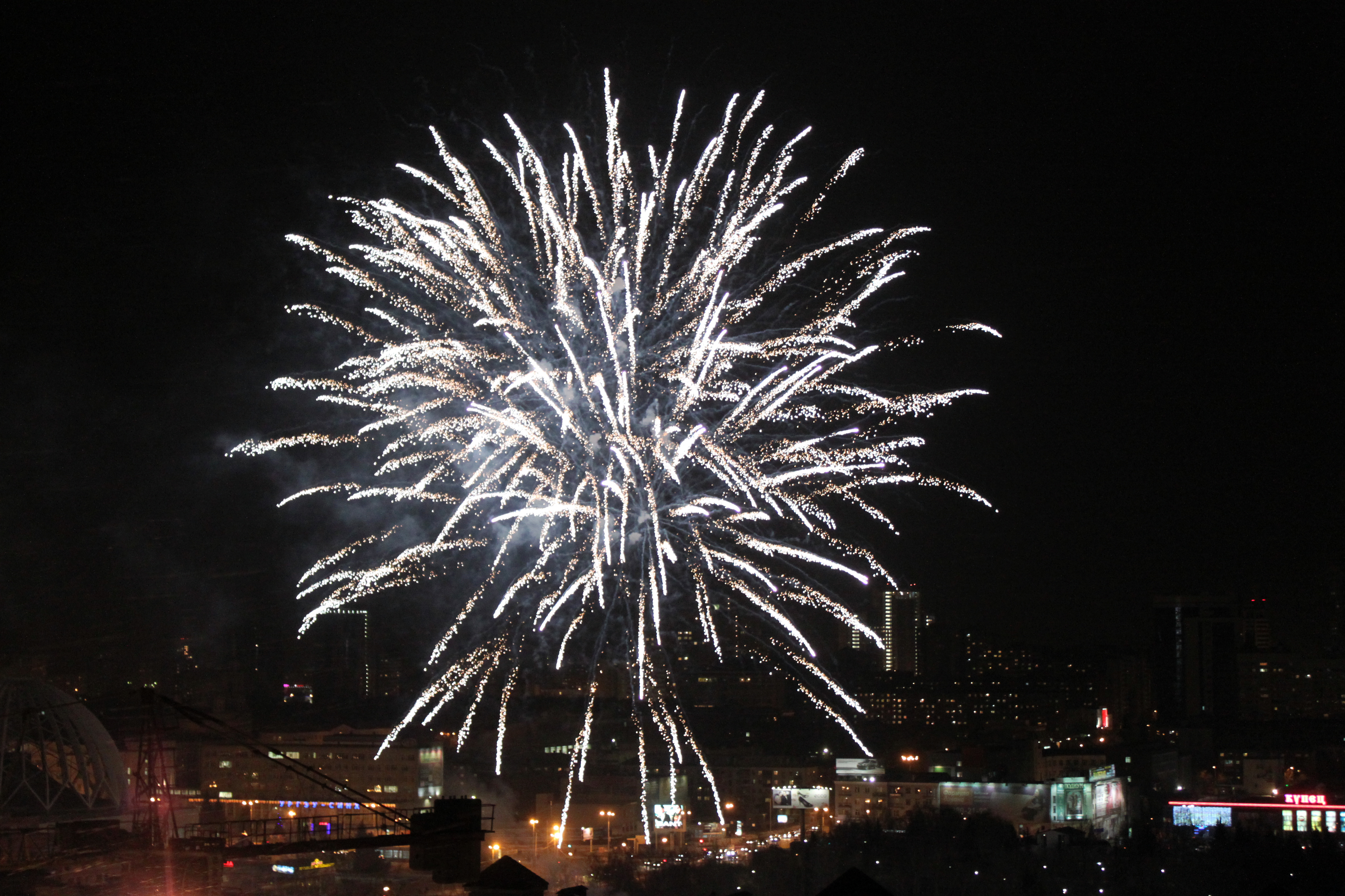 Firework in Yekaterinburg, Russian Fderation, 12-24-2011